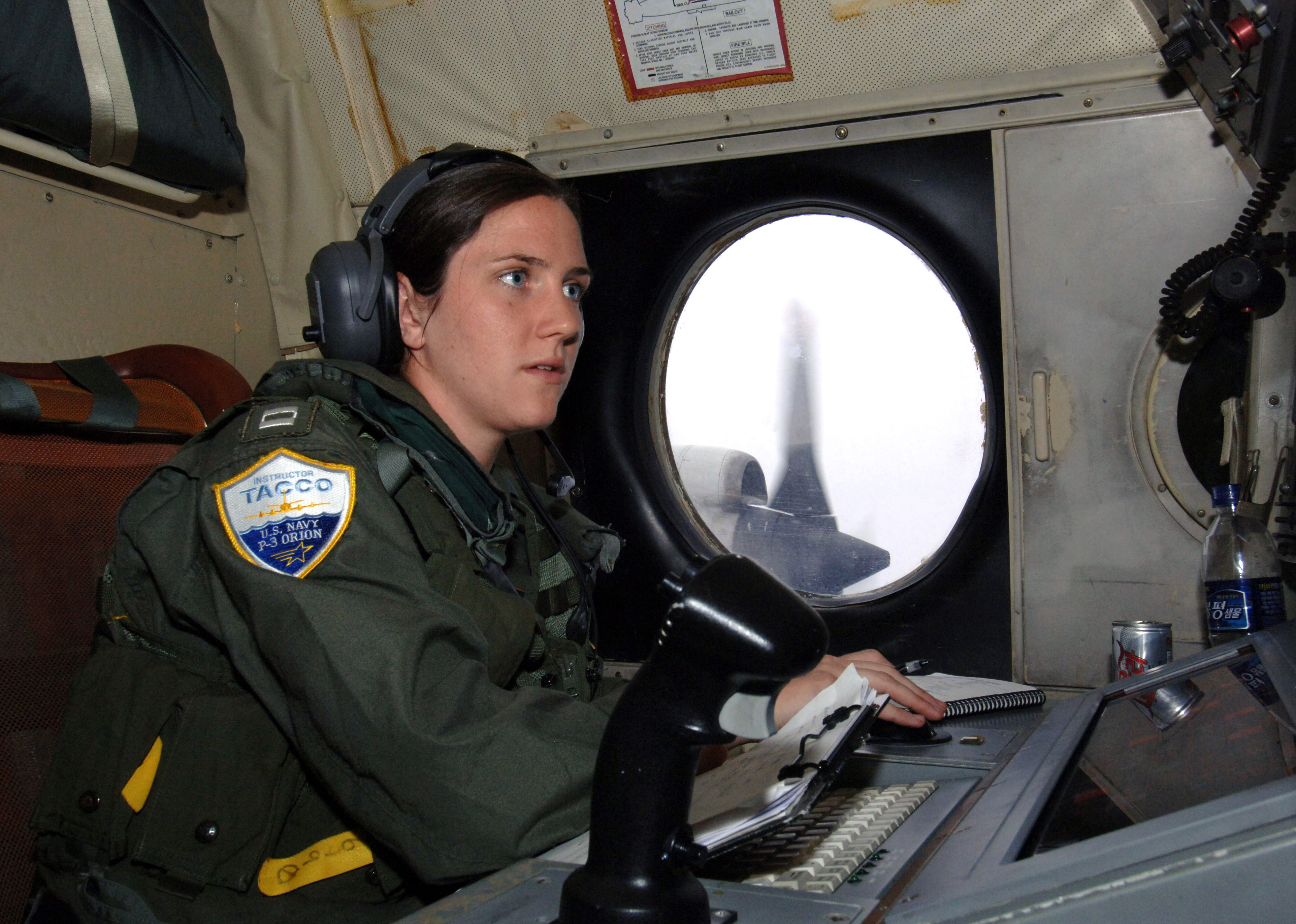 POHANG, Republic of Korea (March 27, 2007) - U.S. Navy Patrol Plane Tactical Coordinator and Mission Commander, Lt. Colleen Stephens of Patrol and Reconnaissance Squadron (VP) 4, monitors maritime contact data while on a flight over the coast of the Republic of Korea during Exercise Reception, Staging, Onward movement, and Integration/Foal Eagle 2007 (RSO&I/FE 07). RSO&I is an annual combined field training exercise to demonstrate resolve in support of the Republic of Korea (ROK) against external aggression while improving ROK-U.S. combined interoperability. Emphasis is placed on strategic, operational and tactical aspects of military operations in the Korean peninsula. U.S. Navy photo by Mass Communication Specialist 1st Class Brandon Raile (RELEASED)